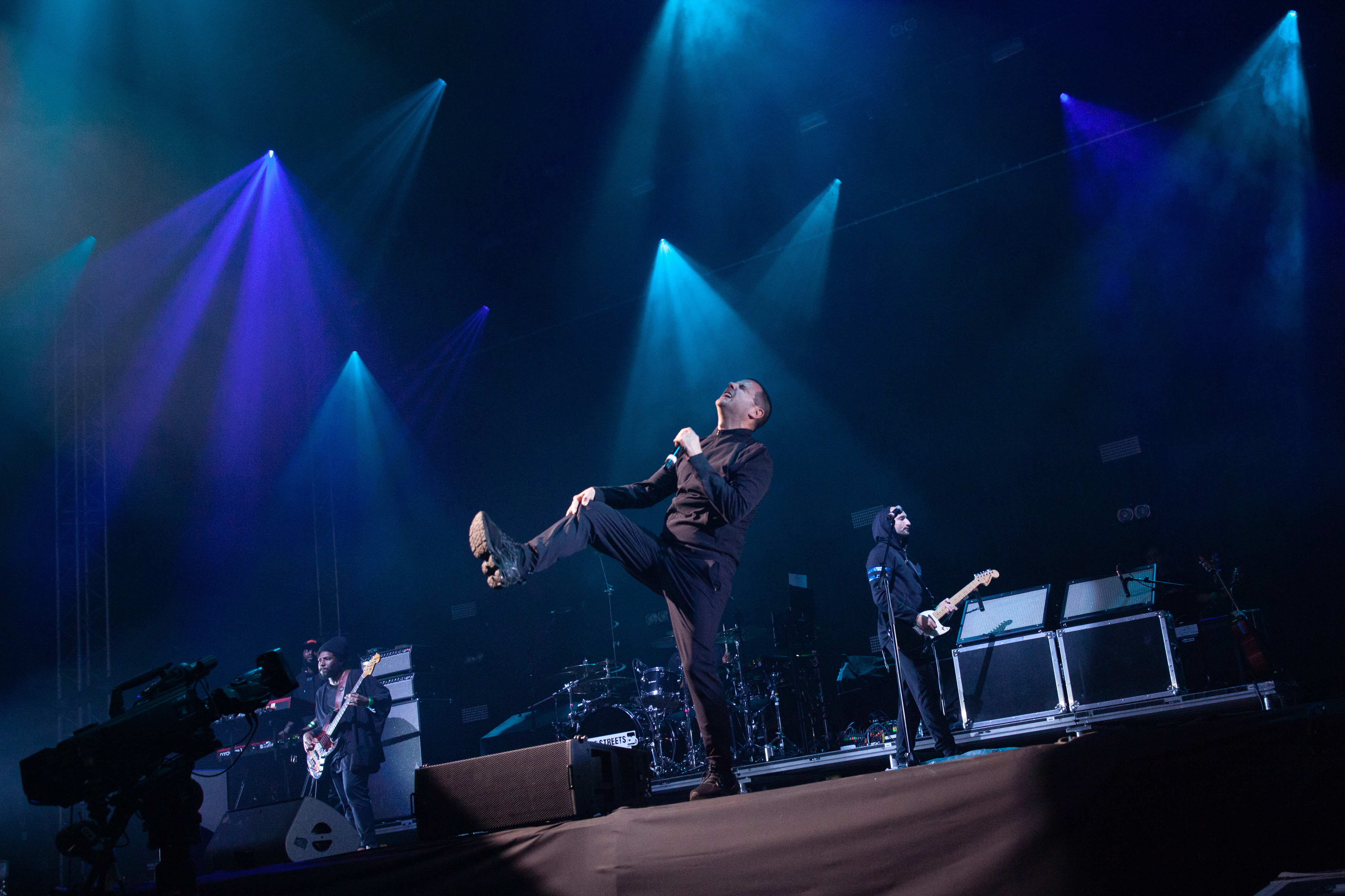 The Streets John Peel Stage Glastonbury 2019